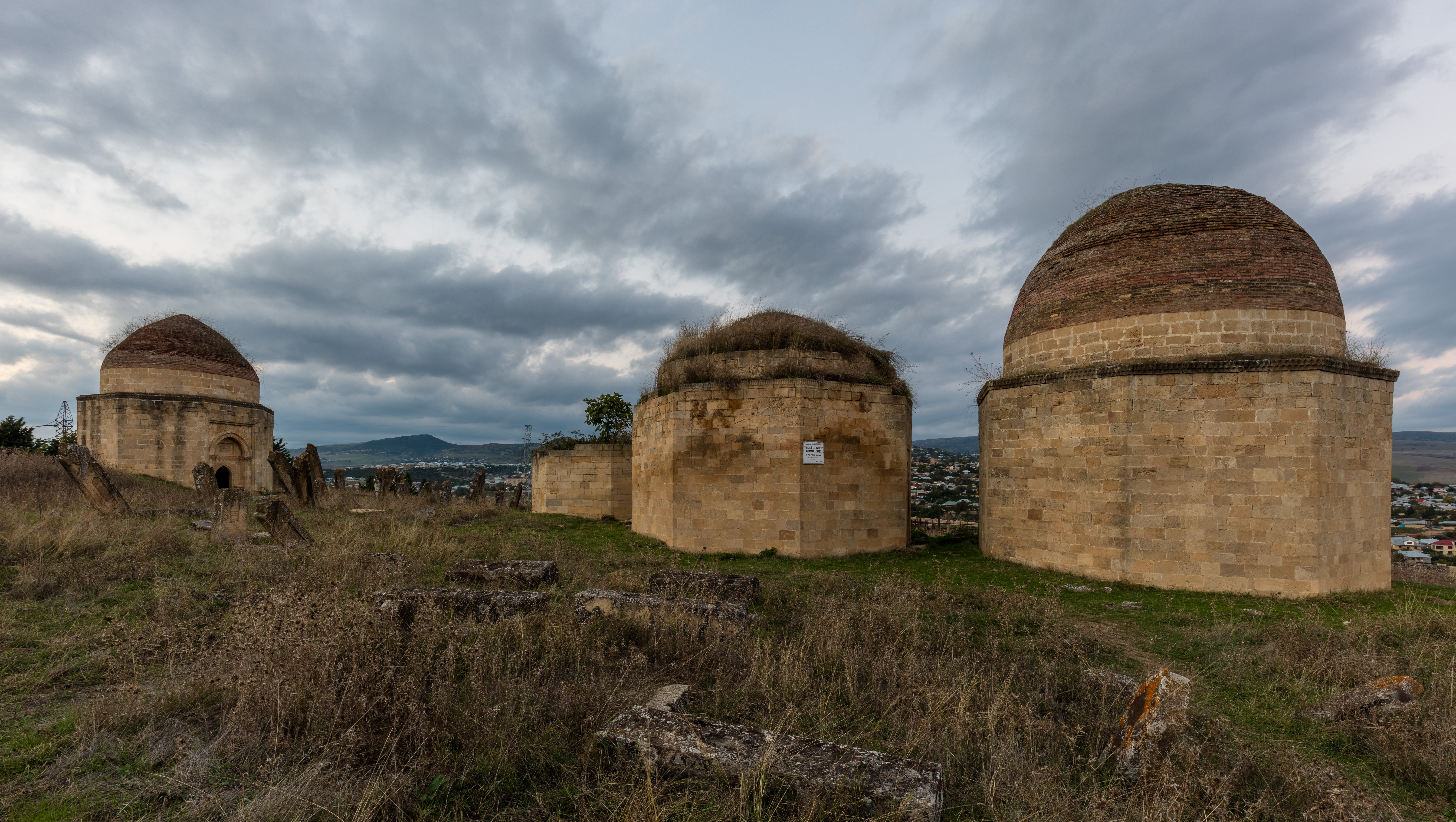 Yeddi Gumbez Mausoleums, Shamakhi, Azerbaijan